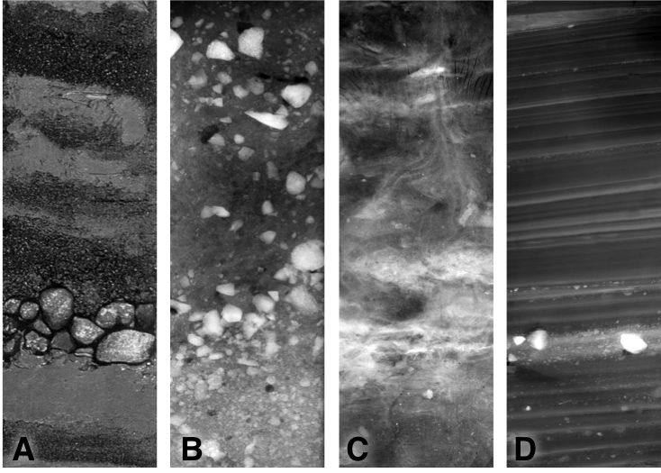 Images of sediment types from the Southern Ocean (A) sediment photo from the Antarctic continental margin with layers of gravel and sand documenting advances of the ice sheet to the outer shelf, i.e. a proximal turbidite; (B) shelf sediments including a high amount of gravel; (C) sediment strongly bioturbated by benthic organisms living in and from the sediment; (D) laminated sediment deposited under a closed ice coverage (width of each image is 10 cm). B, C and D are x-ray images of 1 cm thick sediment slices.